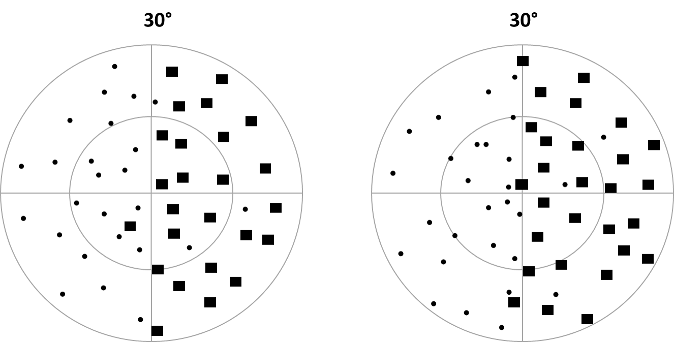 typical result of perimetry in a patient with hemianopia to the left